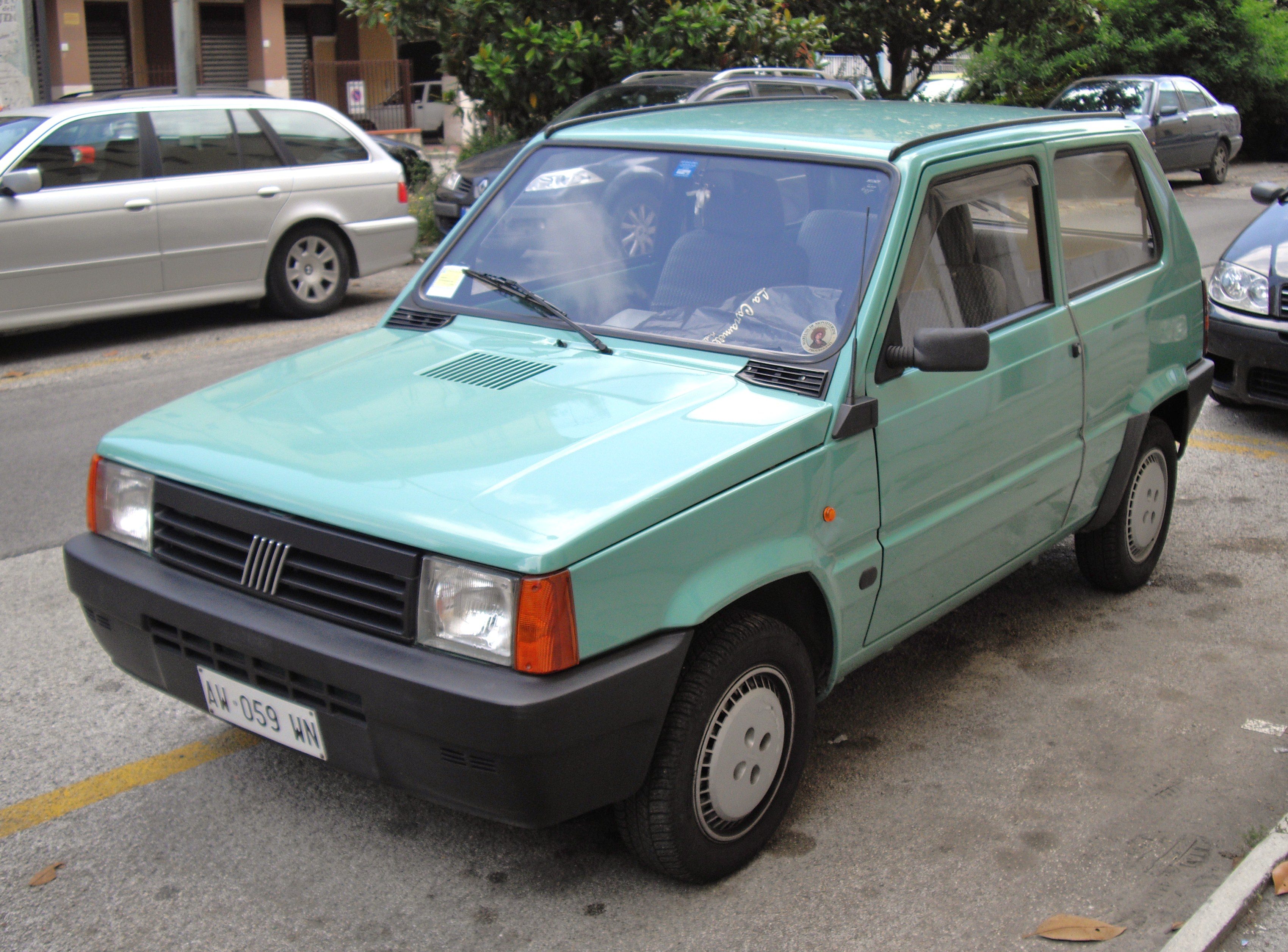 1997 Fiat Panda